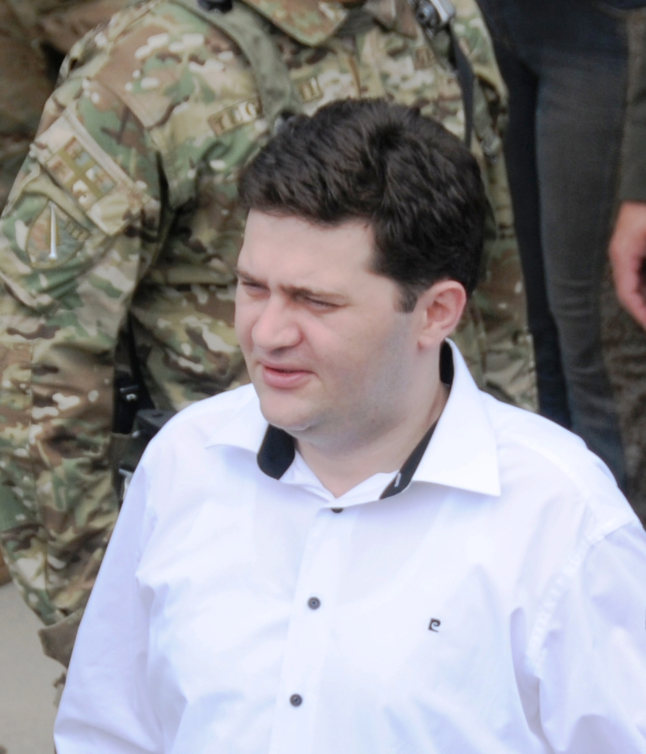 Georgian Minister of Defense, Honorable Bachana Akhalaia receives a mission brief from U.S. Army Col. John M. Spiszer, commander of the Joint Multinational Readiness Center, during a training exercise at the JMRC in Hohenfels, Germany on August 19, 2011.